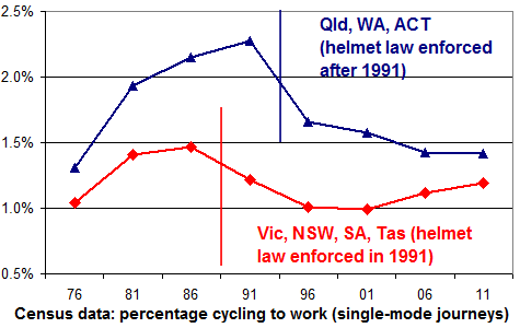 Census data on cycling to work - Australian states with and without enforced helmet laws at the 1991 census